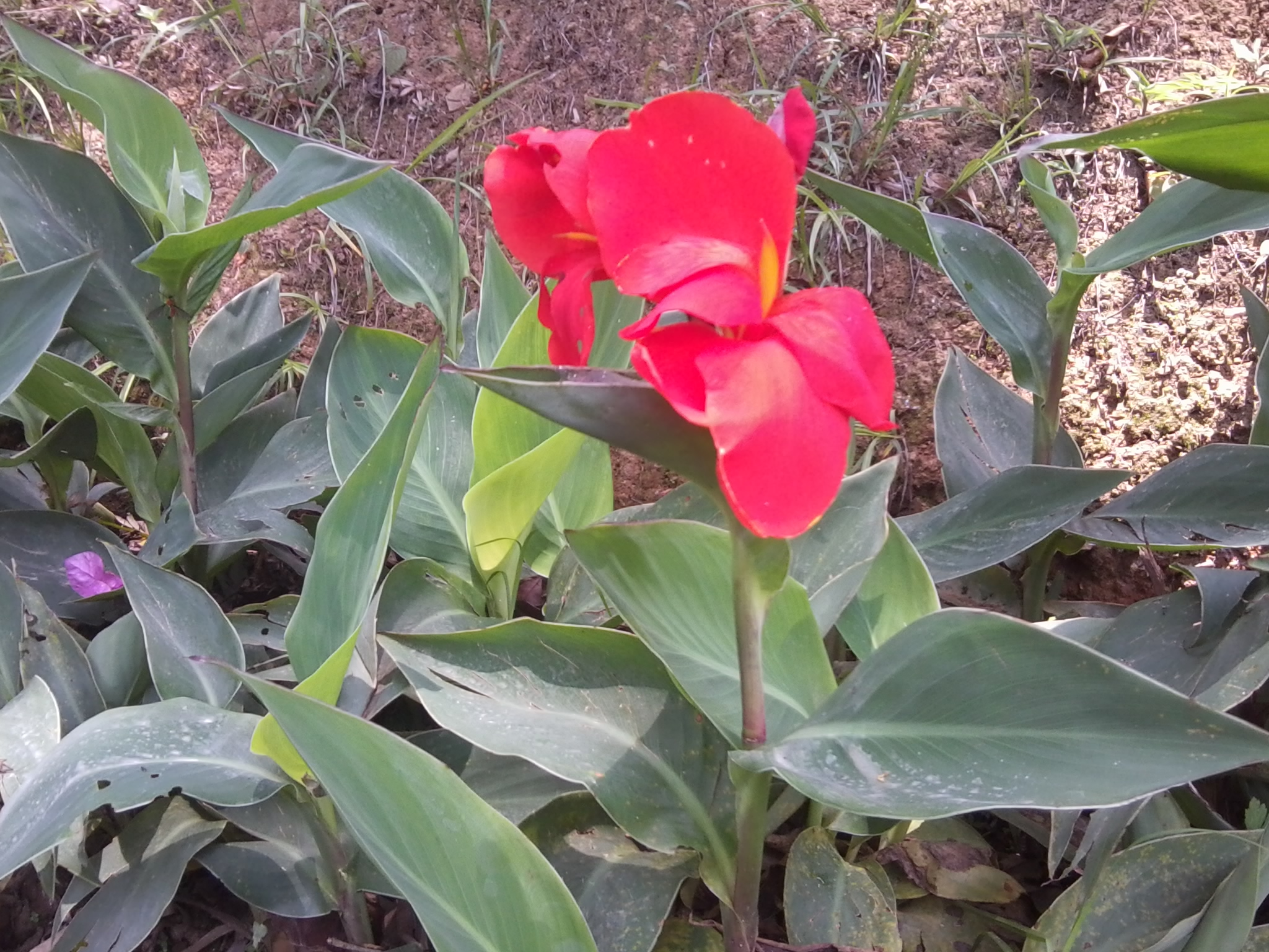 Flower in Nepal